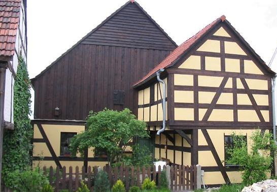 Restored "Märkisches Mittelflurhaus" (Brandenburgish middle hall house), special form "Spiekerhaus" (storage house) "Nuthe-Nieplitz-Haus" in Kemnitz, Brandenburg, Germany